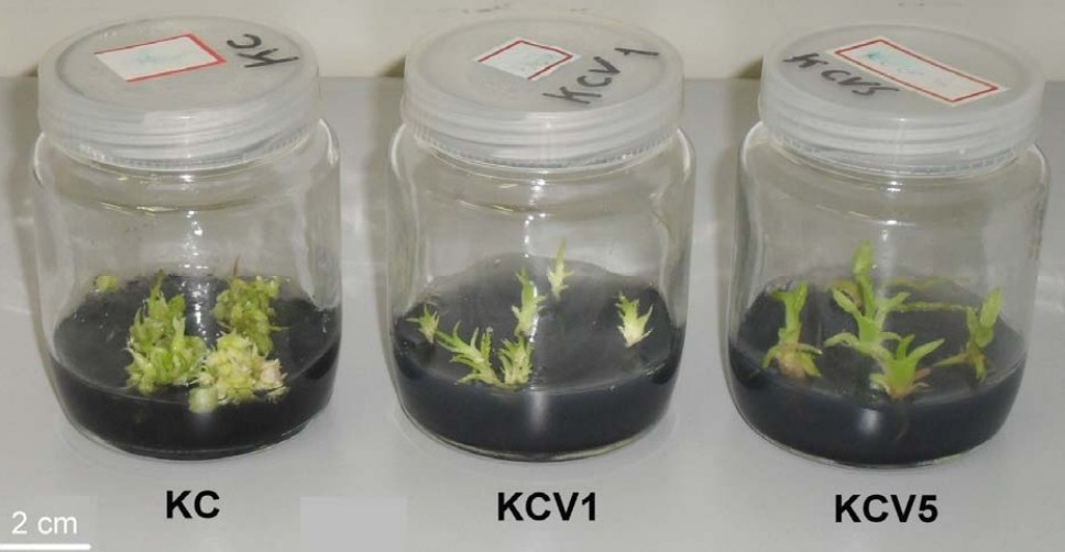 In vitro elongation and rooting of Oncidium leucochilum on KC medium (control) and two KC formulations with 2.5% vinasse after six months. Media are free of plant growth regulators.